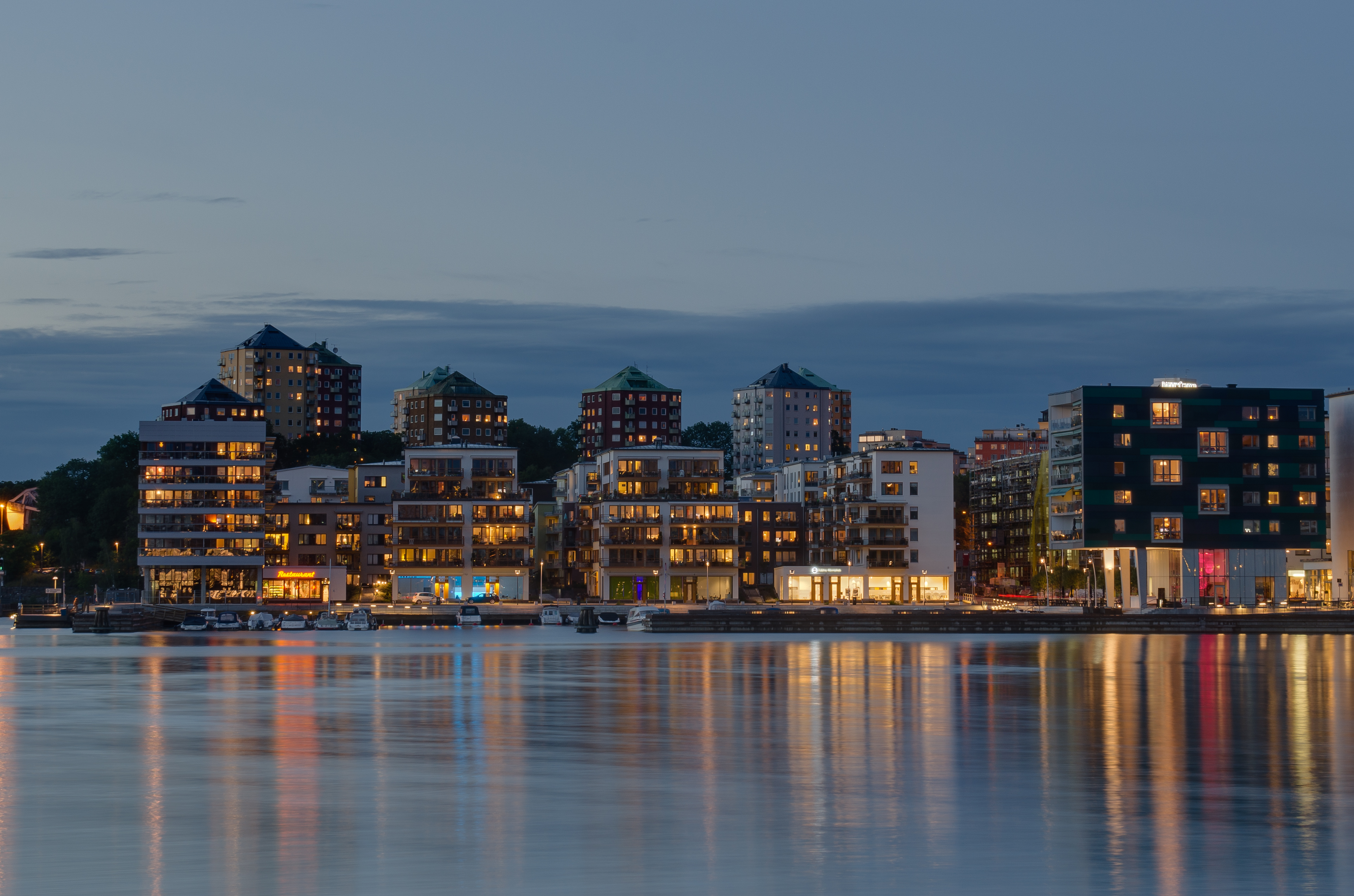 Buildings in Henriksdalshamnen, Stockholm. Note: exposure fusion (3 exposures).